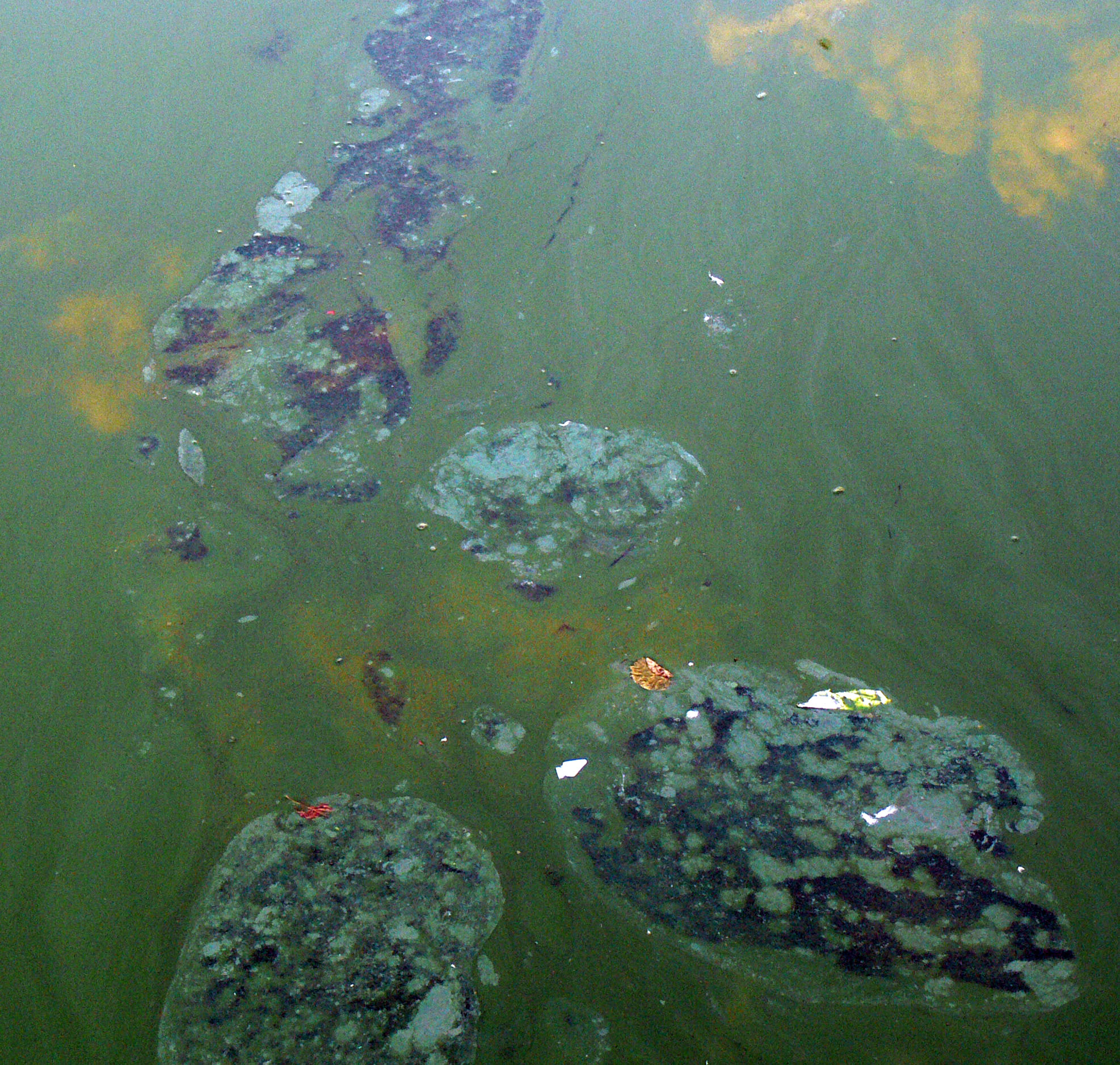 Bloom of cyanobacteria ("blue-green algae"). traces shaped streaks are traces of fish and ducks that run on water, "breaking" the biofilm. The samples emit a strong odor of algae (spirulina type). blue is "a priori" to areas of accumulation of blue pigments released by dead bacteria. Location: "Quai du Wault" in Lille, not far from downtown (north of France; Location vai google maps: 50.637485,3.05425)